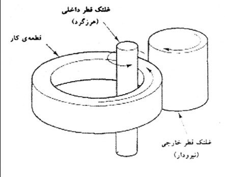 نورد حلقه ای